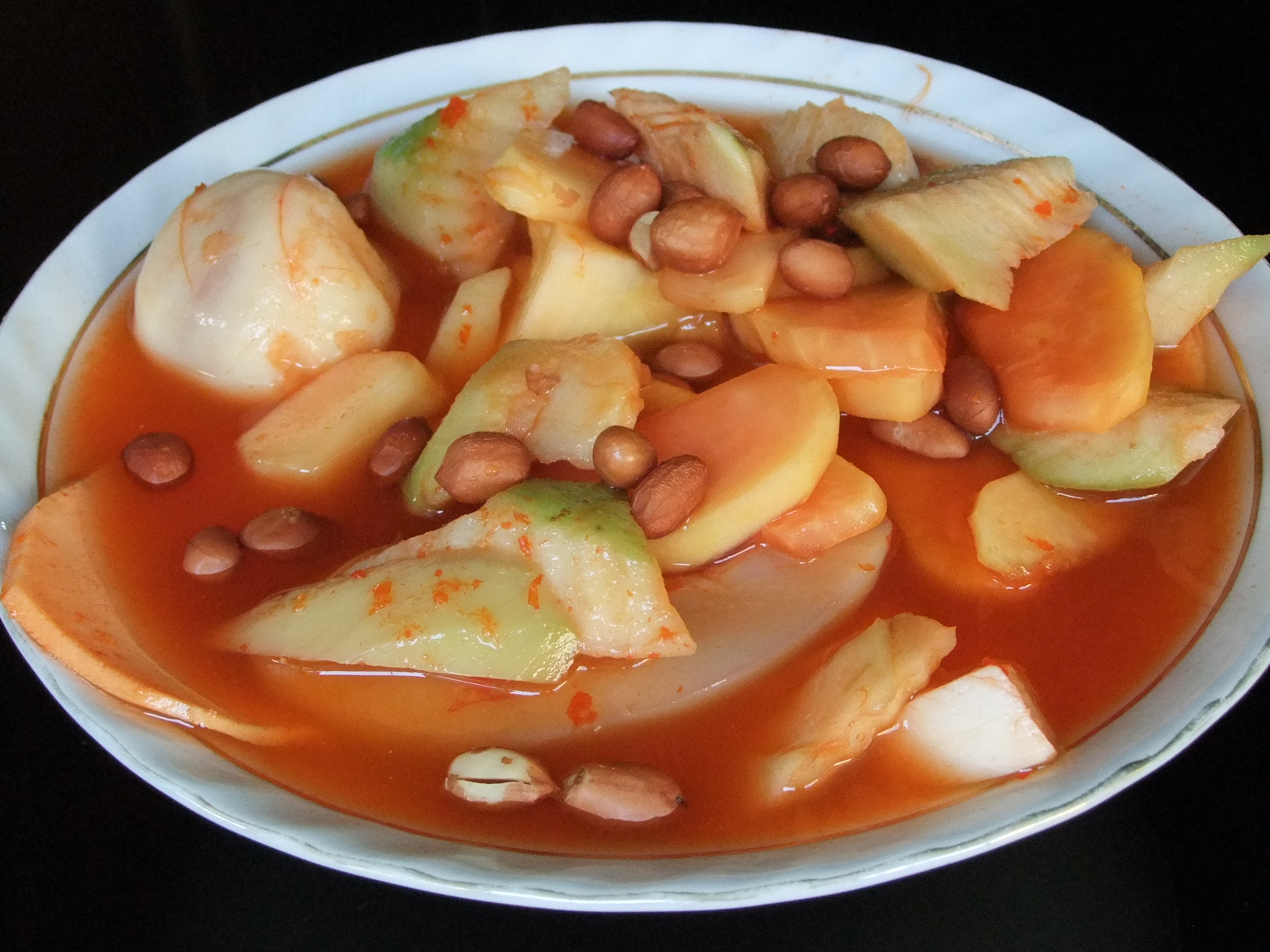 Asinan Bogor, Bogor fruit salad